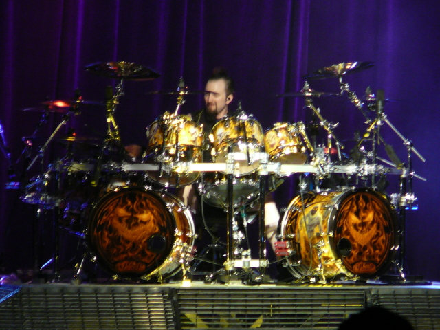 Taken at the Lifestyle Communities Pavilion in Columbus, Ohio.